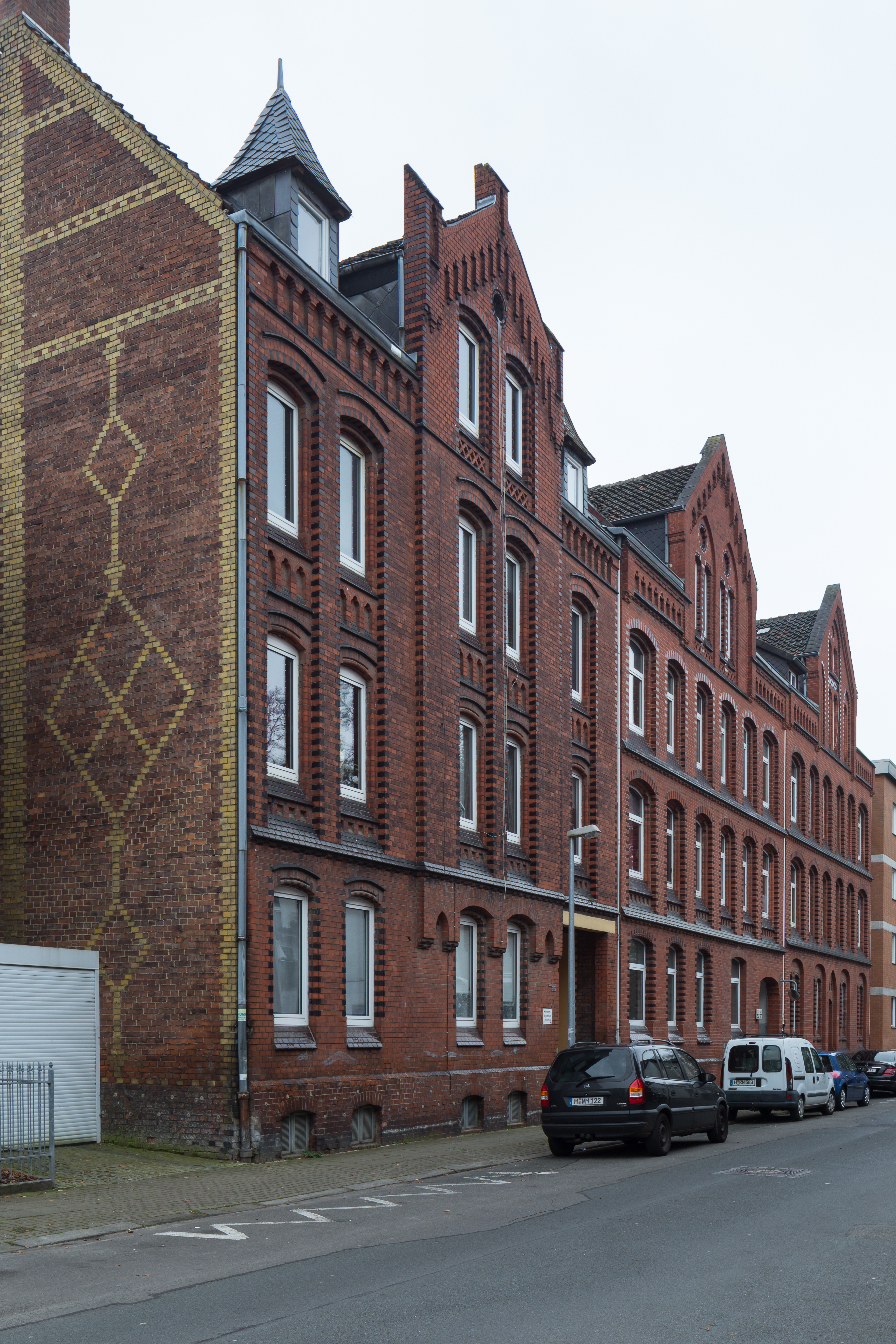 Apartment houses located at Kapellenstrasse in Kleefeld quarter of Hannover, Germany.